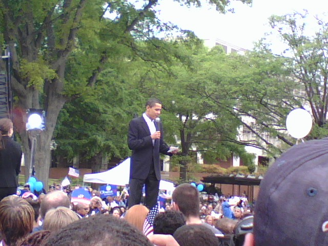 Barack Obama speaking and reading a cue card at an Atlanta, Georgia campaign rally.